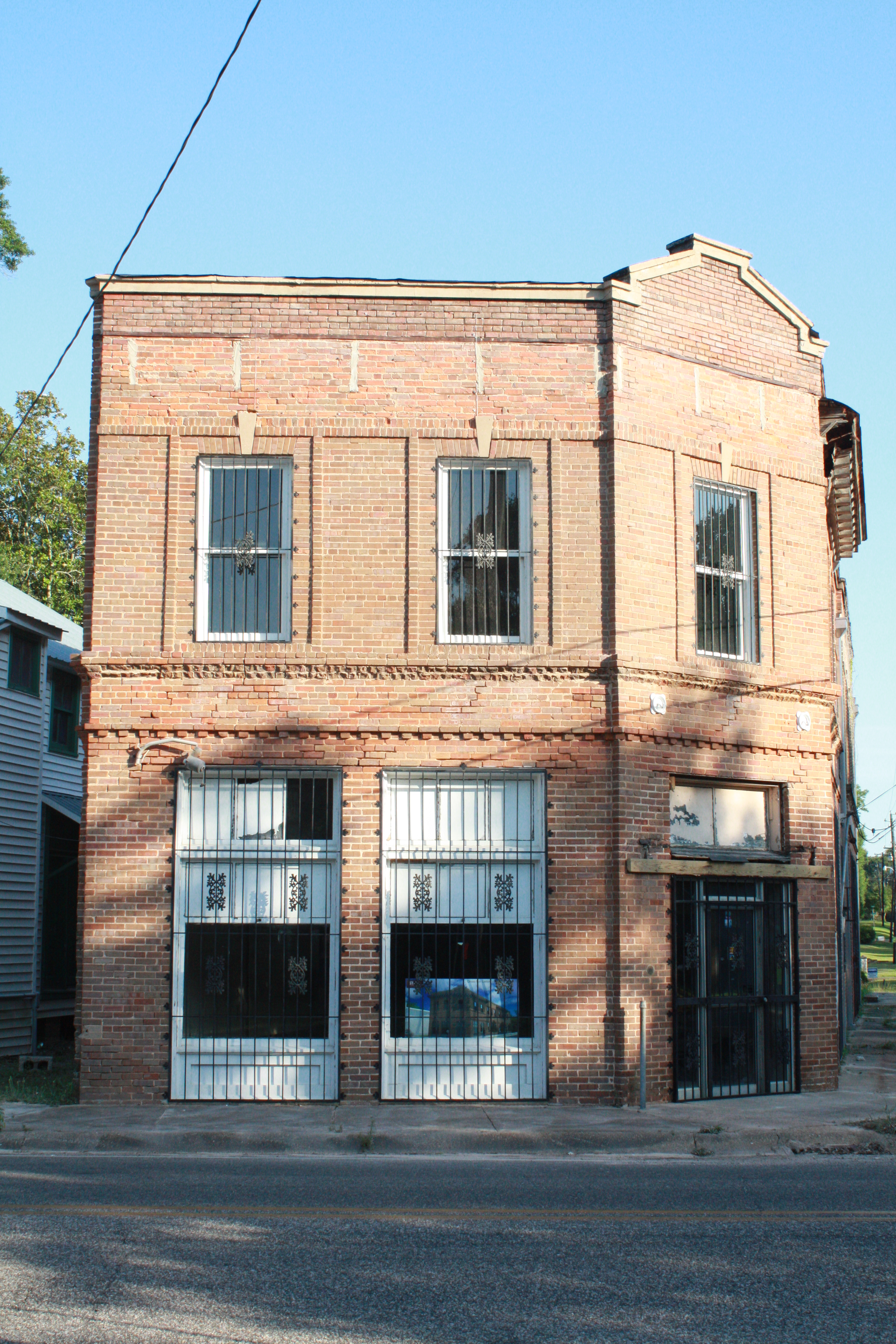 Grand Bay State Bank building located in Grand Bay, Alabama, and included in the federally designated Grand Bay historic district.